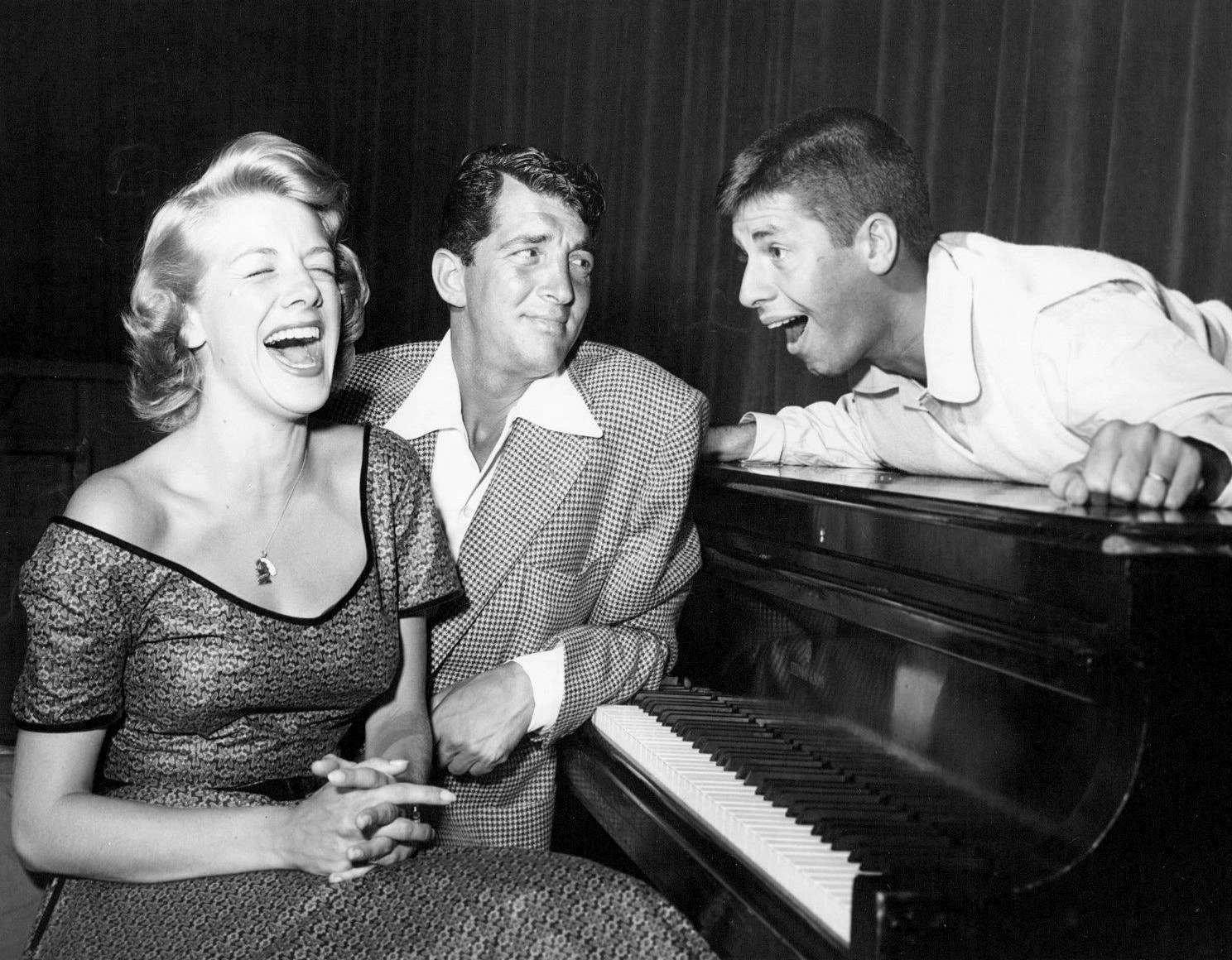 Photo of Rosemary Clooney, Dean Martin and Jerry Lewis from the radio and television program The Colgate Comedy Hour. In television's early days, programs were often broadcast on radio and television. Martin and Lewis were the hosts of the show at this time.